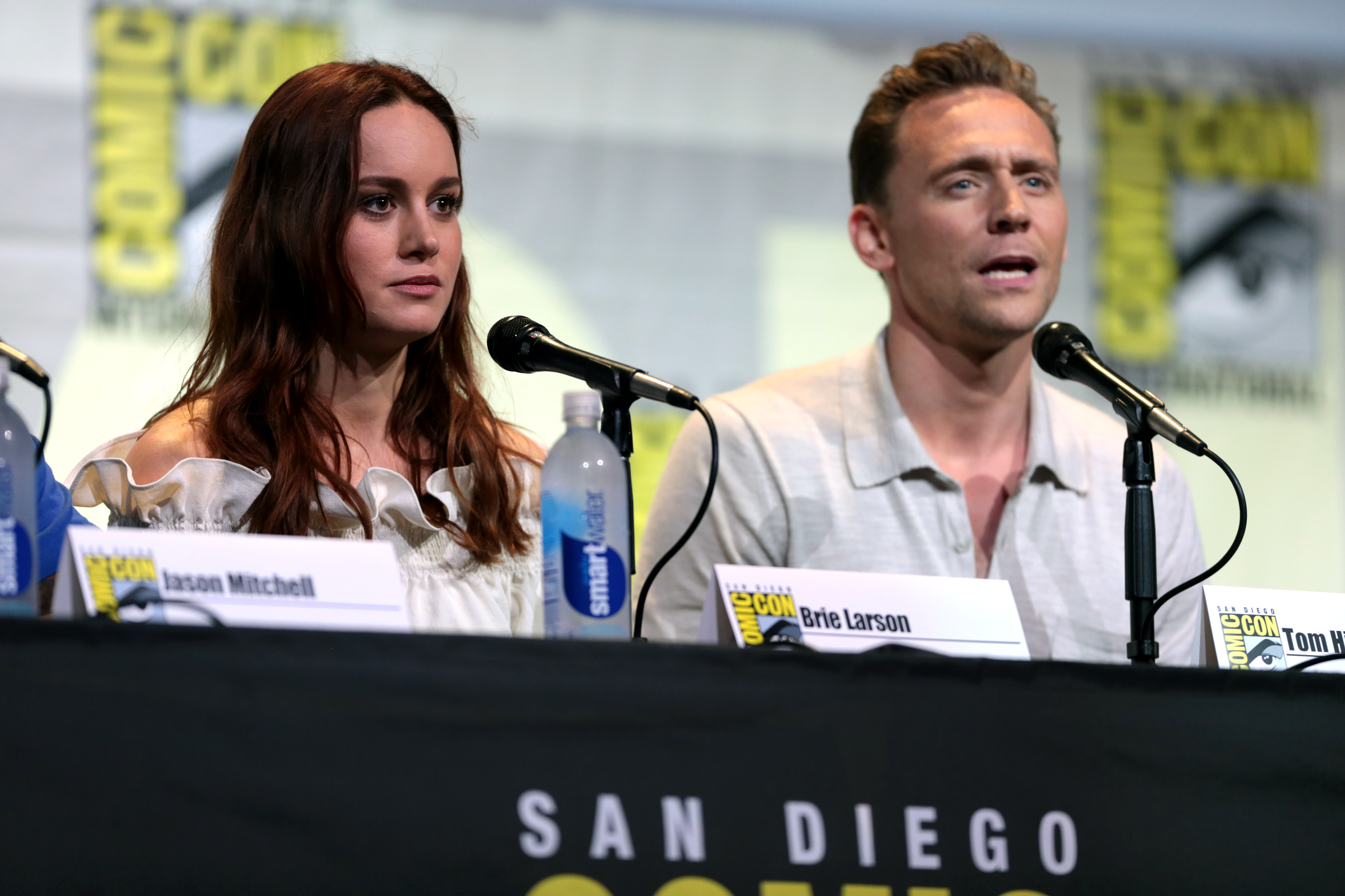 Brie Larson and Tom Hiddleston speaking at the 2016 San Diego Comic Con International, for "Kong: Skull Island", at the San Diego Convention Center in San Diego, California.